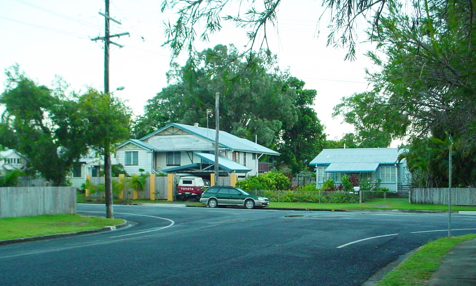 Machans Beach, Cairns, Queensland, Australia